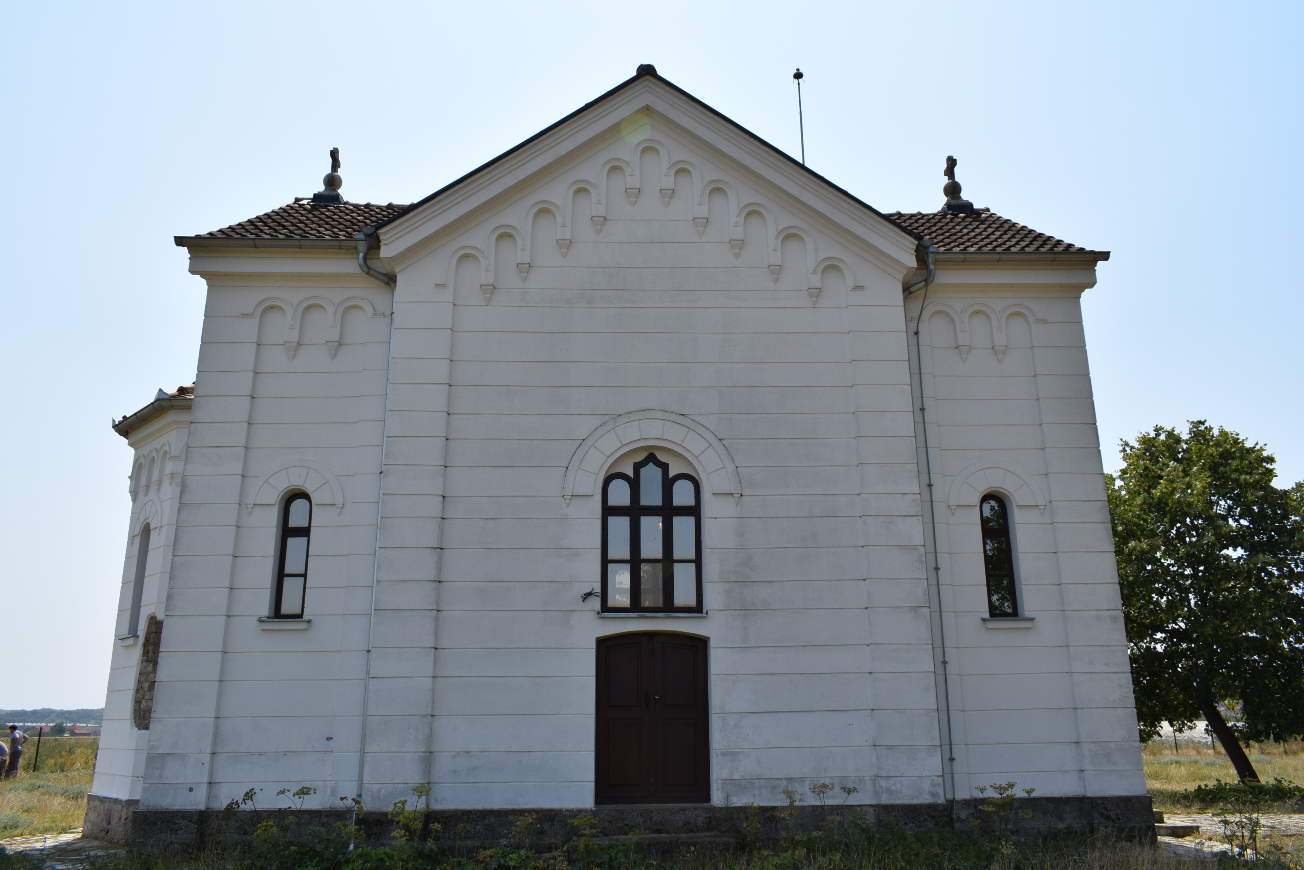 Crkva Uspenja Presvete Bogorodice, Žitorađa 003